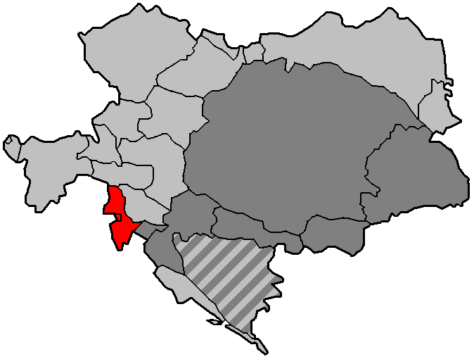 Map of Austria-Hungary